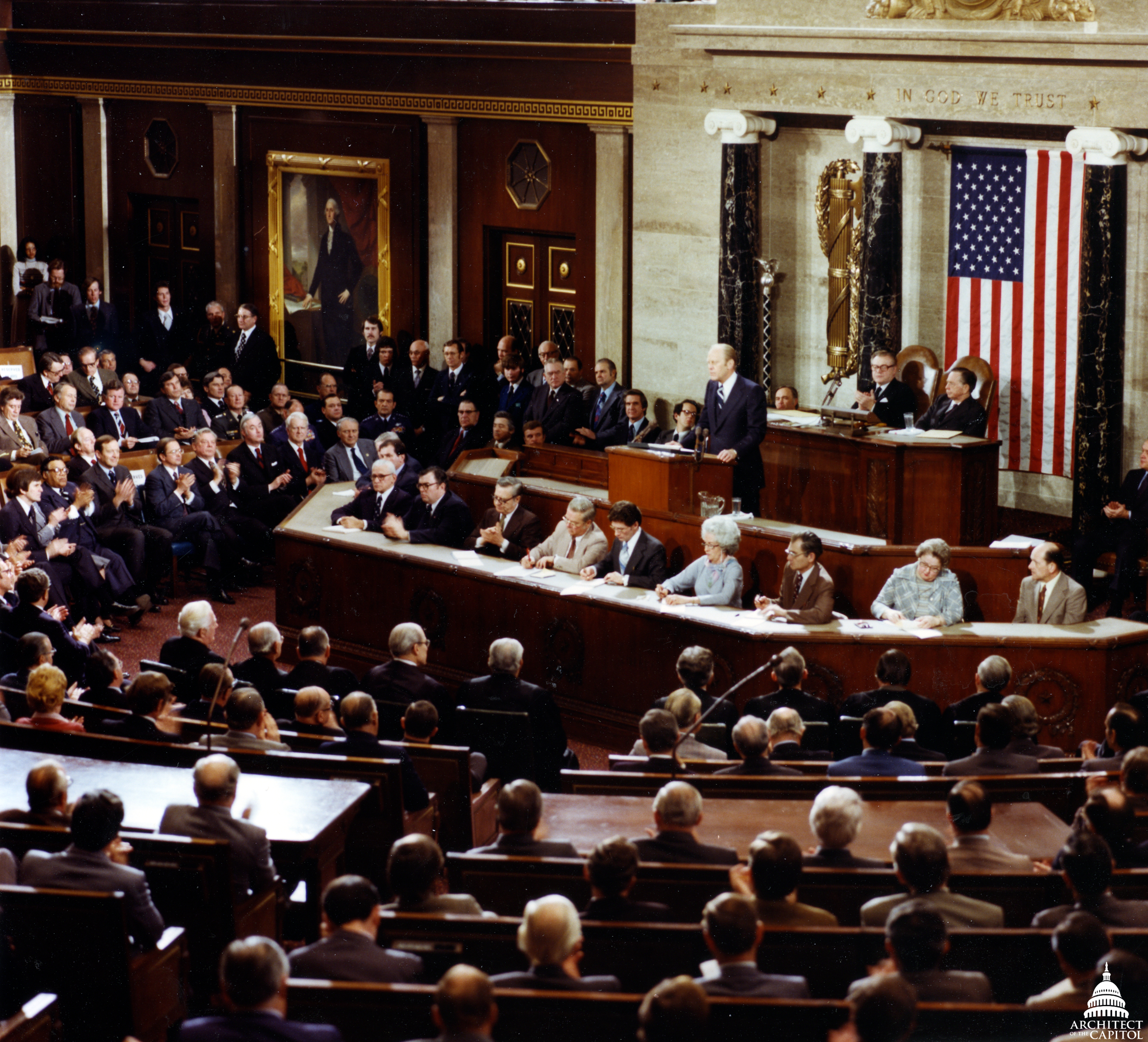 President Ford delivers the State of the Union Address. Vice President Nelson Rockefeller and Speaker Carl Albert seated on the rostrum.